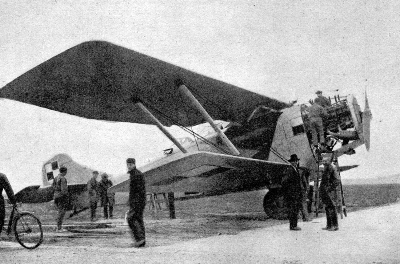 Airplane Aviot 123 "Biały Orzeł" (White Eagle) of Polish Air Force pilots Idzikowski and Kubala before they unsuccesful transatlantic flight